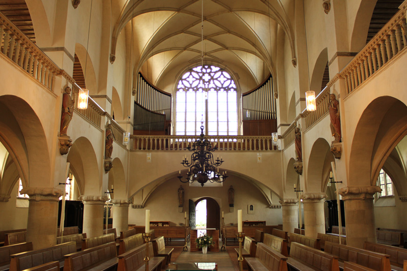 Muenster, St. Petri, interior view